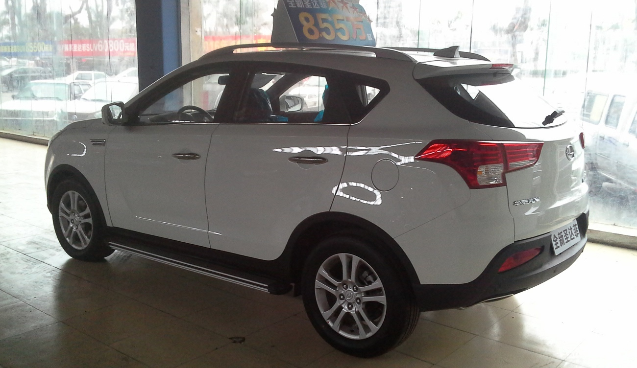 Hawtai Shengdafei II photographed in Zhanjiang, Guangdong province, China.